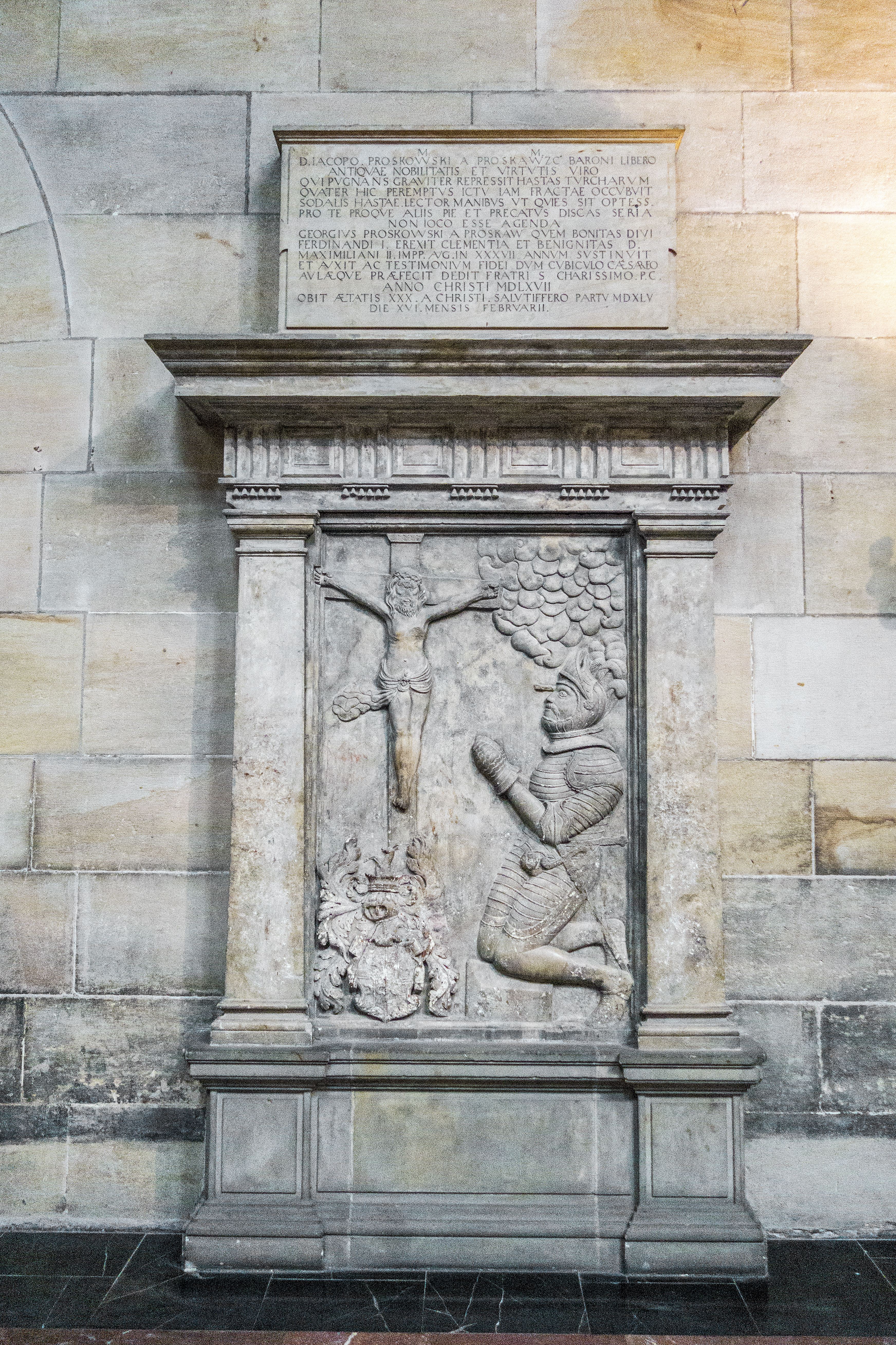 Epitaph Jacopo Proskowski